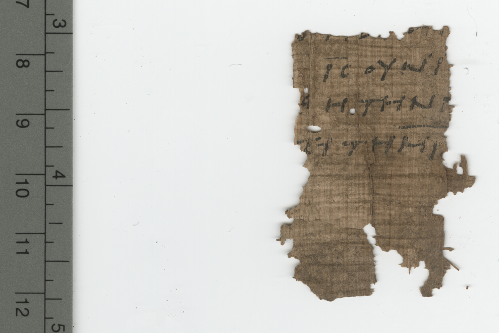 Papyrus 121V